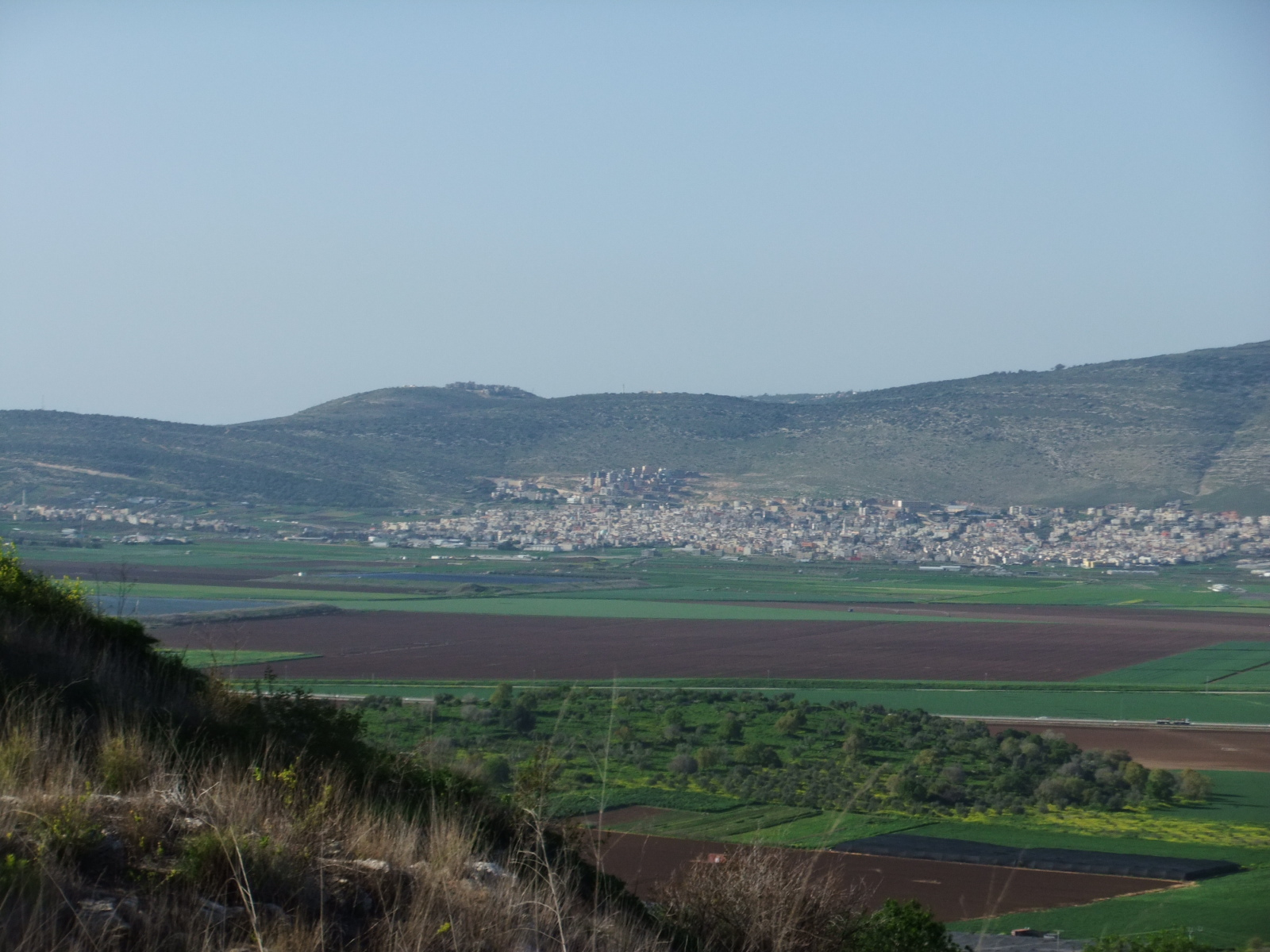 Kafr Manda from ancient Tzipori which is south of Kafr Manda